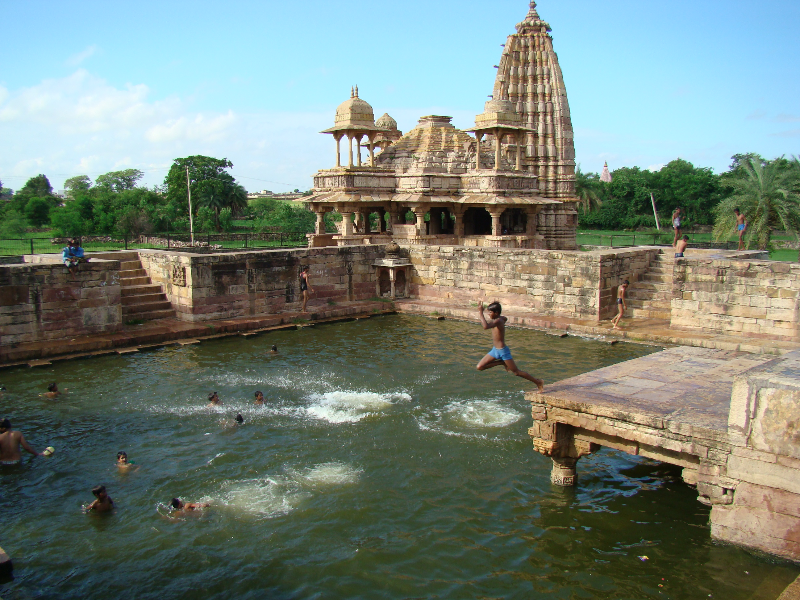 At Bijoliyan - Mahakal temple complex kund and shiv temple